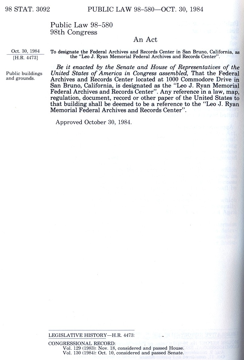 An Act to Designate the Federal Archives and Records Center in San Bruno, California, as the "Leo J. Ryan Memorial Federal Archives and Records Center". (honoring Congressman Leo J. Ryan).